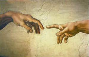 Detail of the Creation of Adam